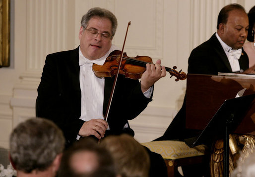 Violinist Itzhak Perlman plays during the entertainment portion of the White House State Dinner in honor on Her Majesty Queen Elizabeth II, Monday evening, May 7, 2007, in the East Room at the White House.